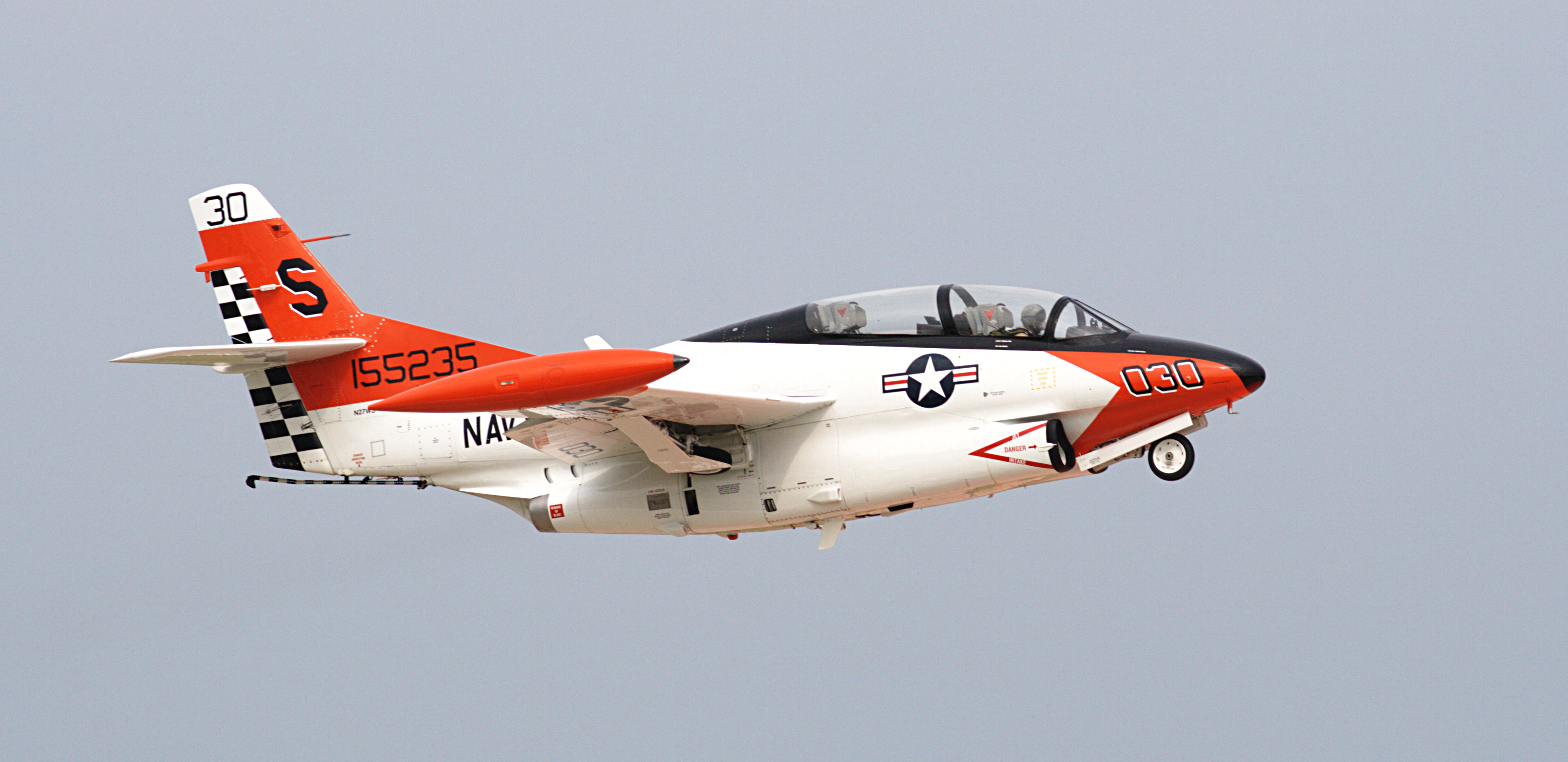 A T-2B Buckeye civil registered as N27WS it was US Navy serial number 155235